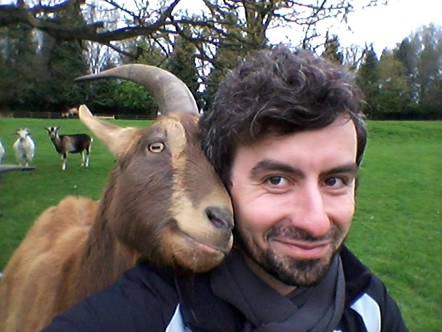 Christian Nawroth, animal cognition researcher from the UK. Picture shows attachment behaviour of a goat. Taken at the Buttercups Sanctuary for Goats.